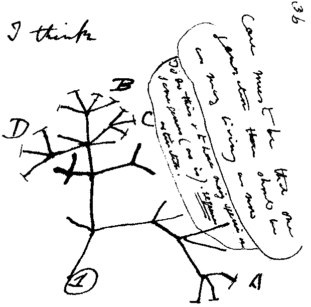 Charles Darwin's 1837 sketch, his first diagram of an evolutionary tree from his First Notebook on Transmutation of Species (1837) on view at the the Museum of Natural History in Manhattan. Interpretation of handwriting: "I think case must be that one generation should have as many living as now. To do this and to have as many species in same genus (as is) requires extinction . Thus between A + B the immense gap of relation. C + B the finest gradation. B+D rather greater distinction. Thus genera would be formed. Bearing relation" (next page begins) "to ancient types with several extinct forms"